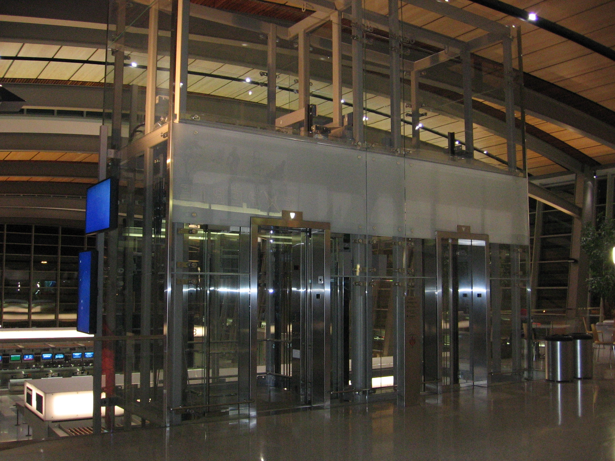 Interior of new Central Terminal B at the Sacramento International Airport in Sacramento County, California, USA.